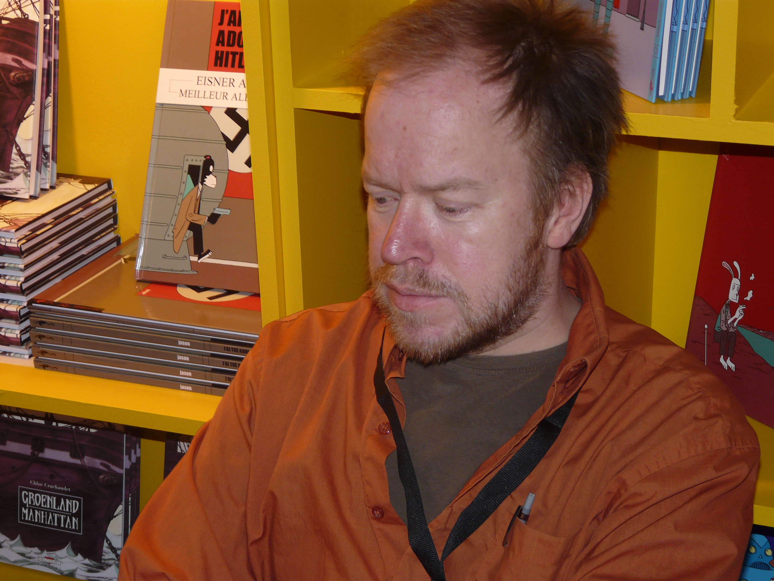 Photographs taken during the Comic Festival "O tour de la bulle" of Montpellier, France